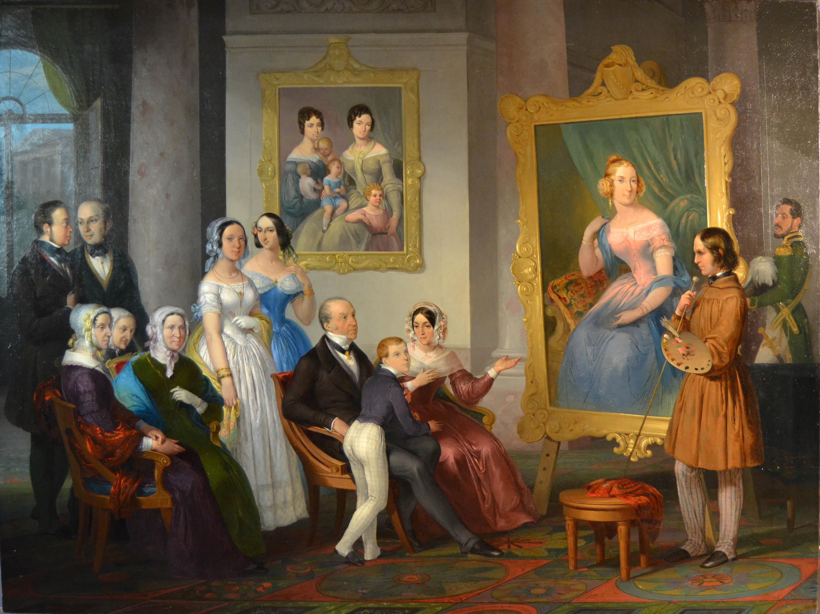 The portrait of Marianna d'Ambra is presented to her husband, Giangiorgio Trissino dal Vello d'Oro, and his family